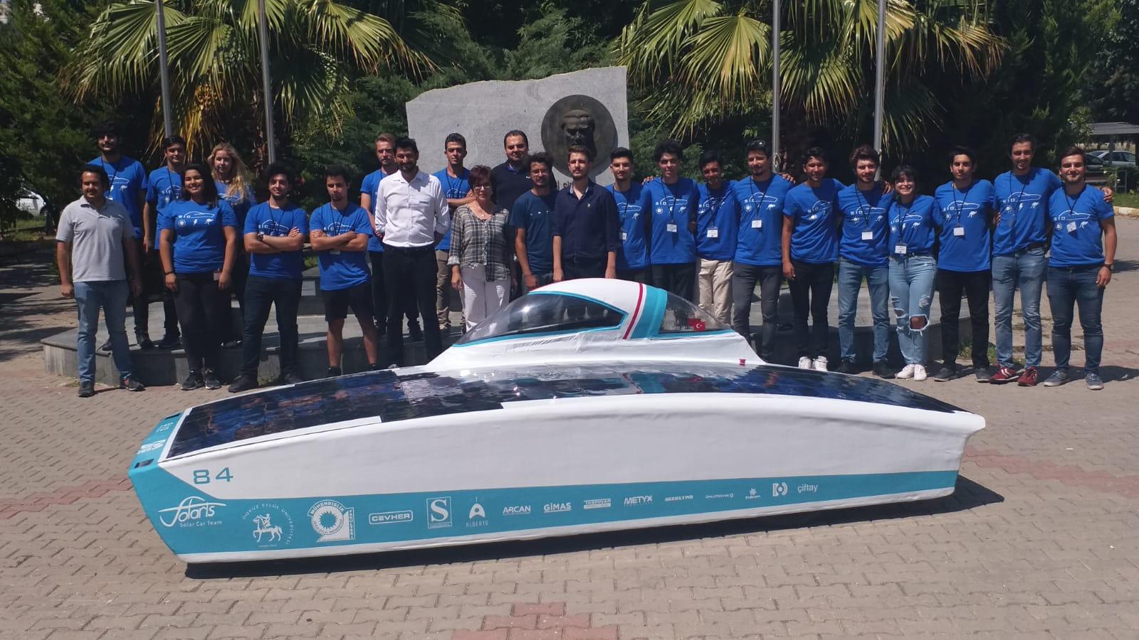 Launch of solar vehicle of Solar Team Solaris, S10.